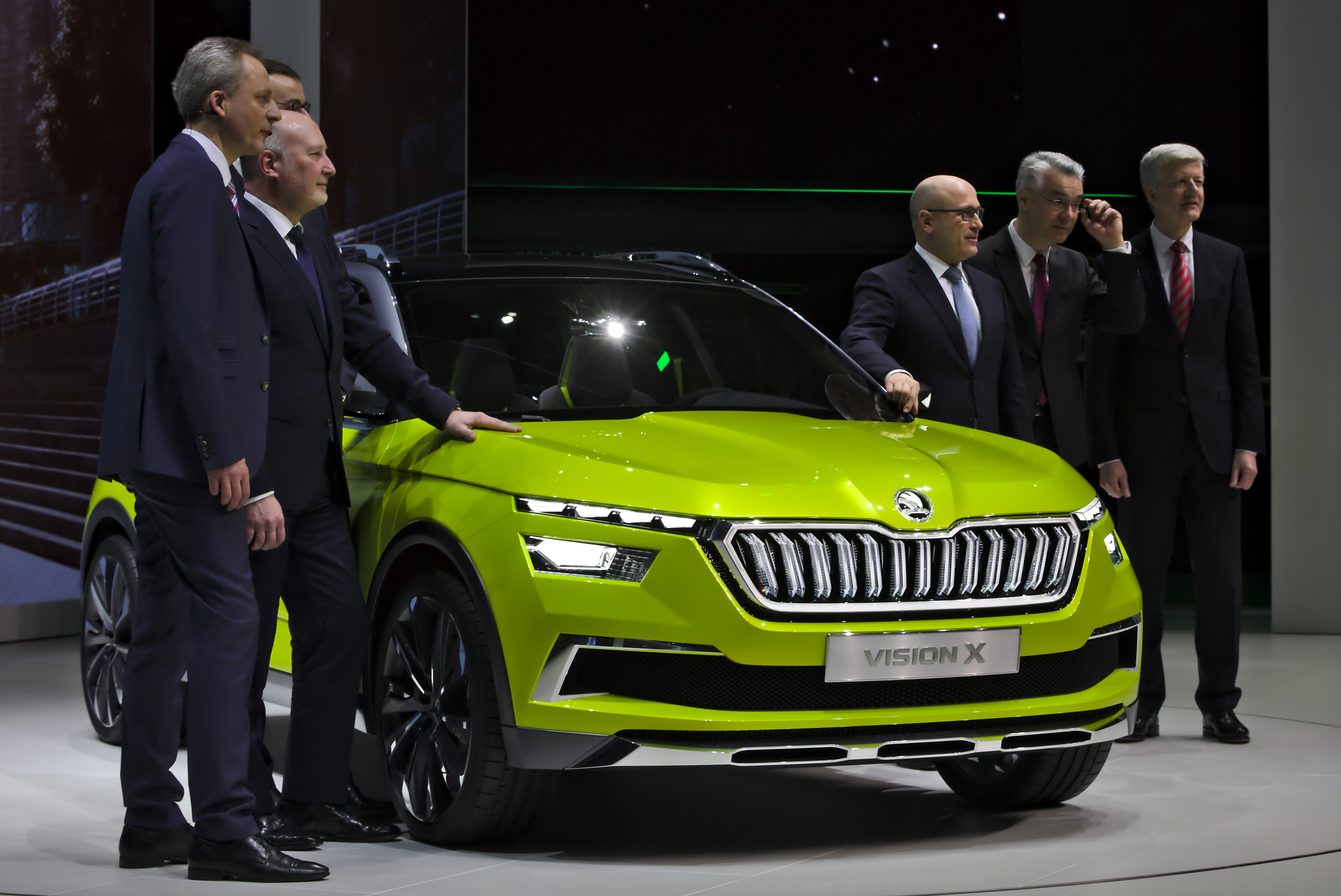 Skoda at Geneva Motorshow 2018